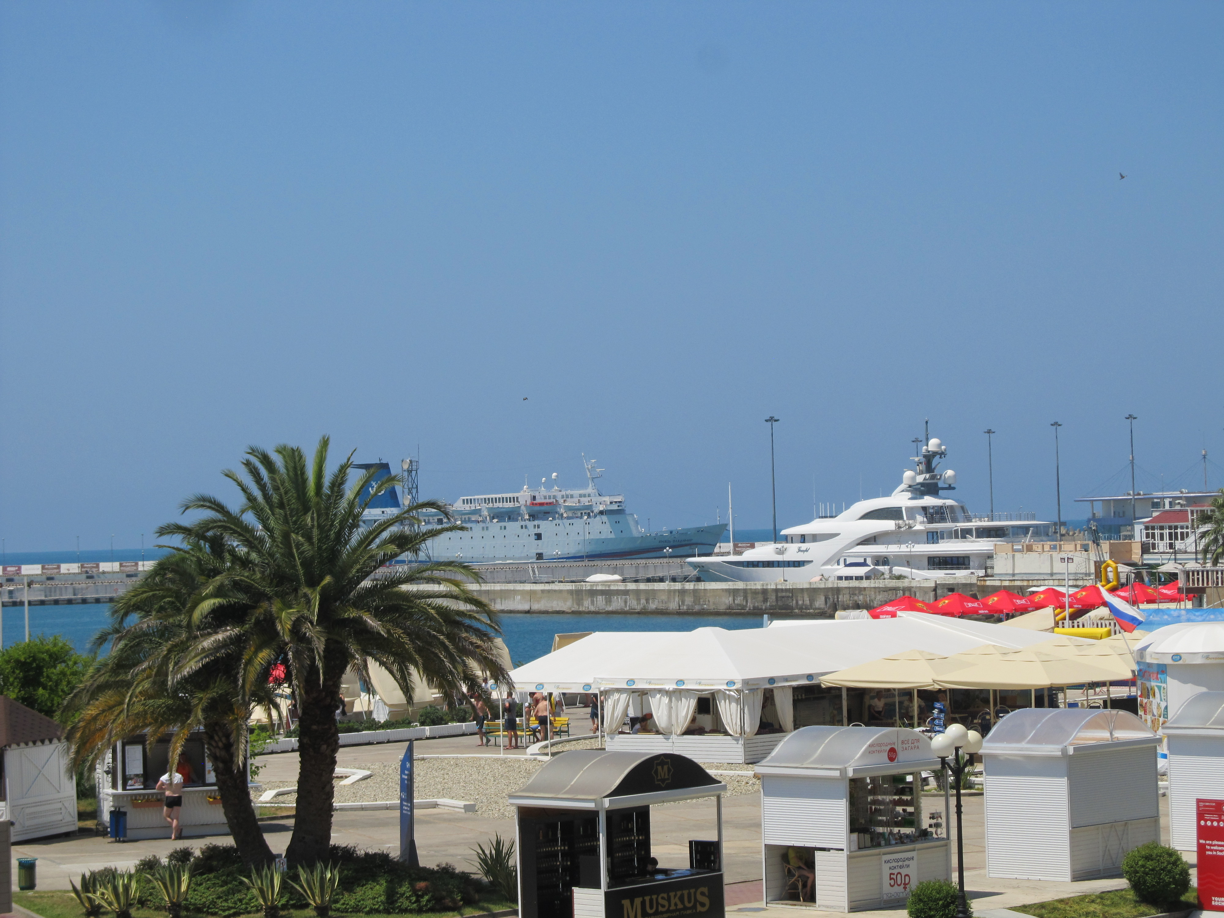 Knyaz Vladimir сruise ship, Sea Port of Sochi